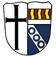 Coat of Arms of Wartmannsroth